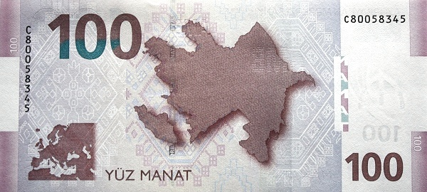 100 Azerbaijani manat in 2013 Reverse